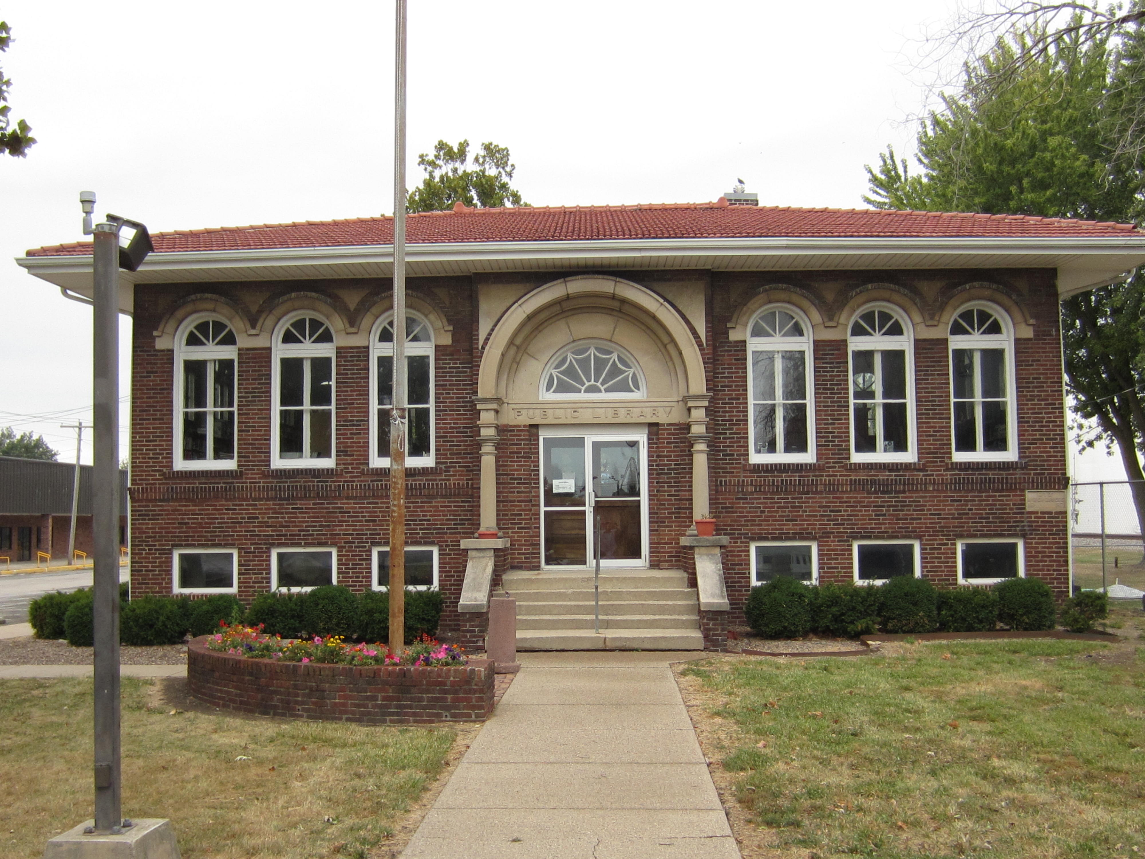 Andrew Carnegie funded public library, Shelbina, MO. 2013